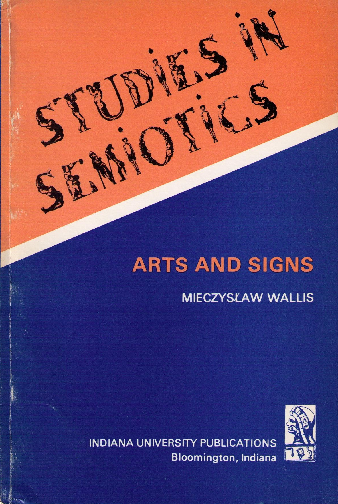 Cover of paperback book